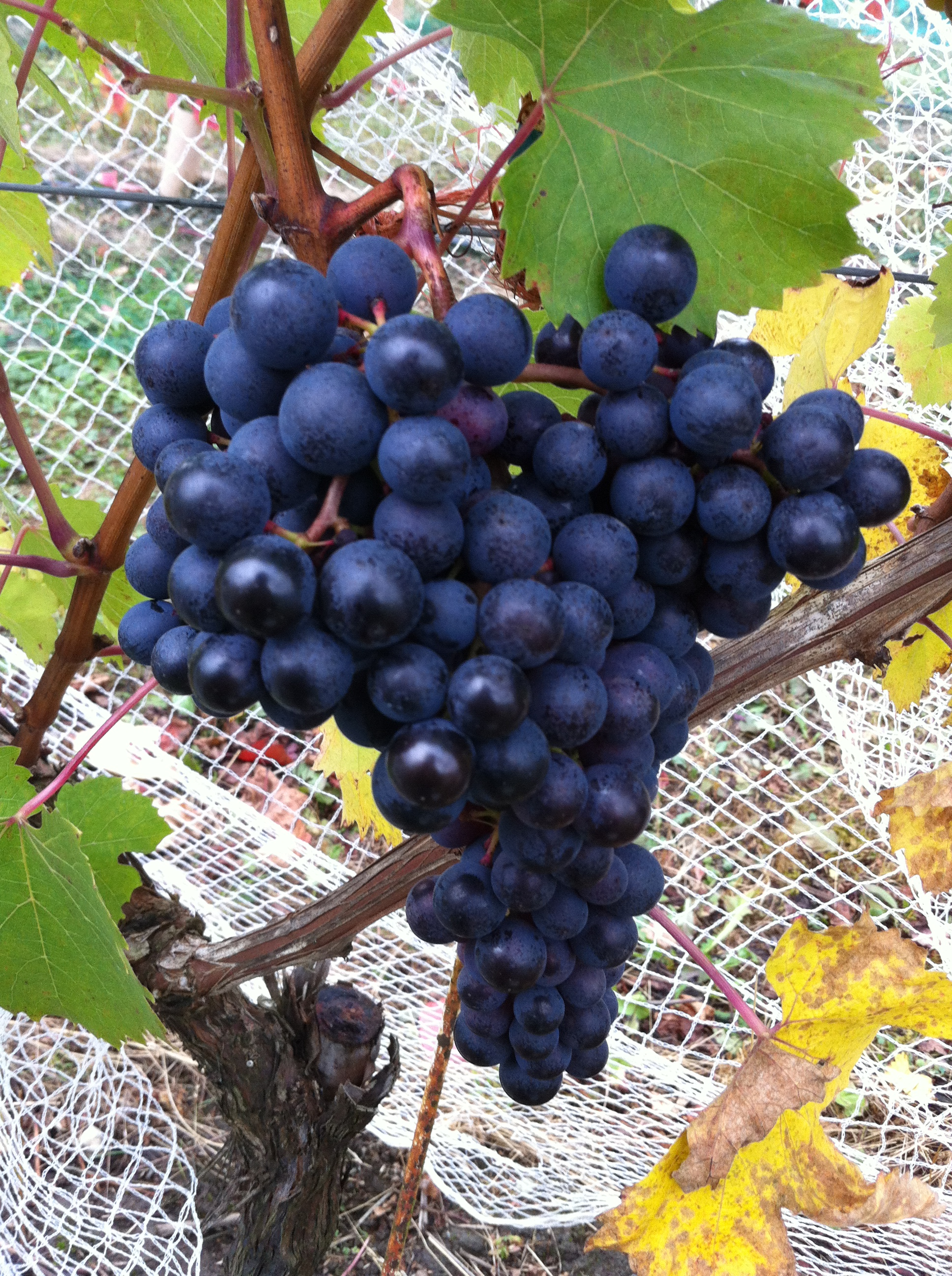 Dolcetto grapes growing in the Puget Sound AVA of Washington